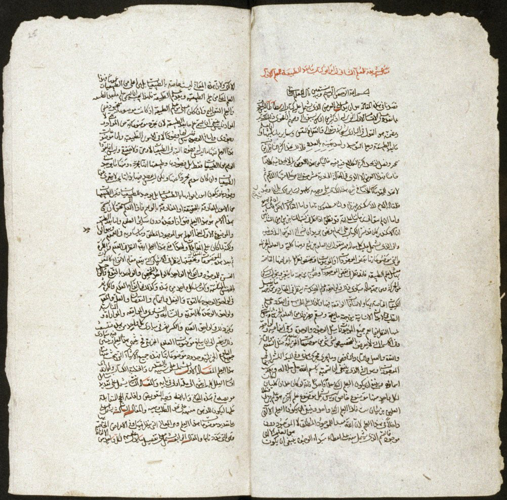 Pages from Maqala fi aghrad kitab Ma ba'd al-tabi'a (On the scope of Aristotle's Metaphysics) Shelfmark: MS. Arab. d. 84 . Folio: 024v-025r